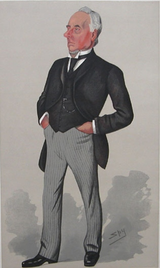 Caricature of Sir Henry Mitchell JP (1824-1898). Caption read "Bradford Goods". See brief biography